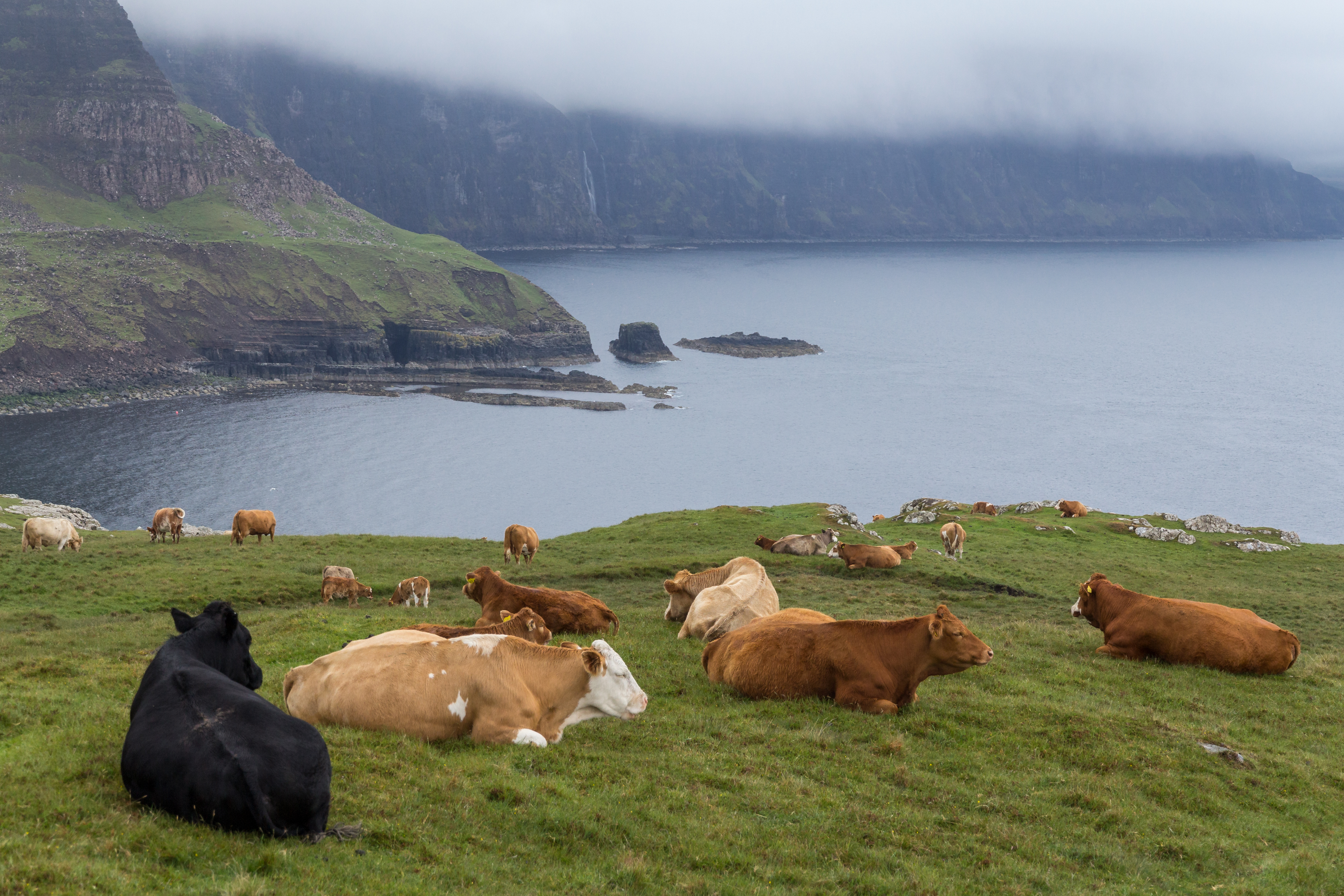 Cattle near Neist Point Lighthouse, Isle of Skye, Scotland.